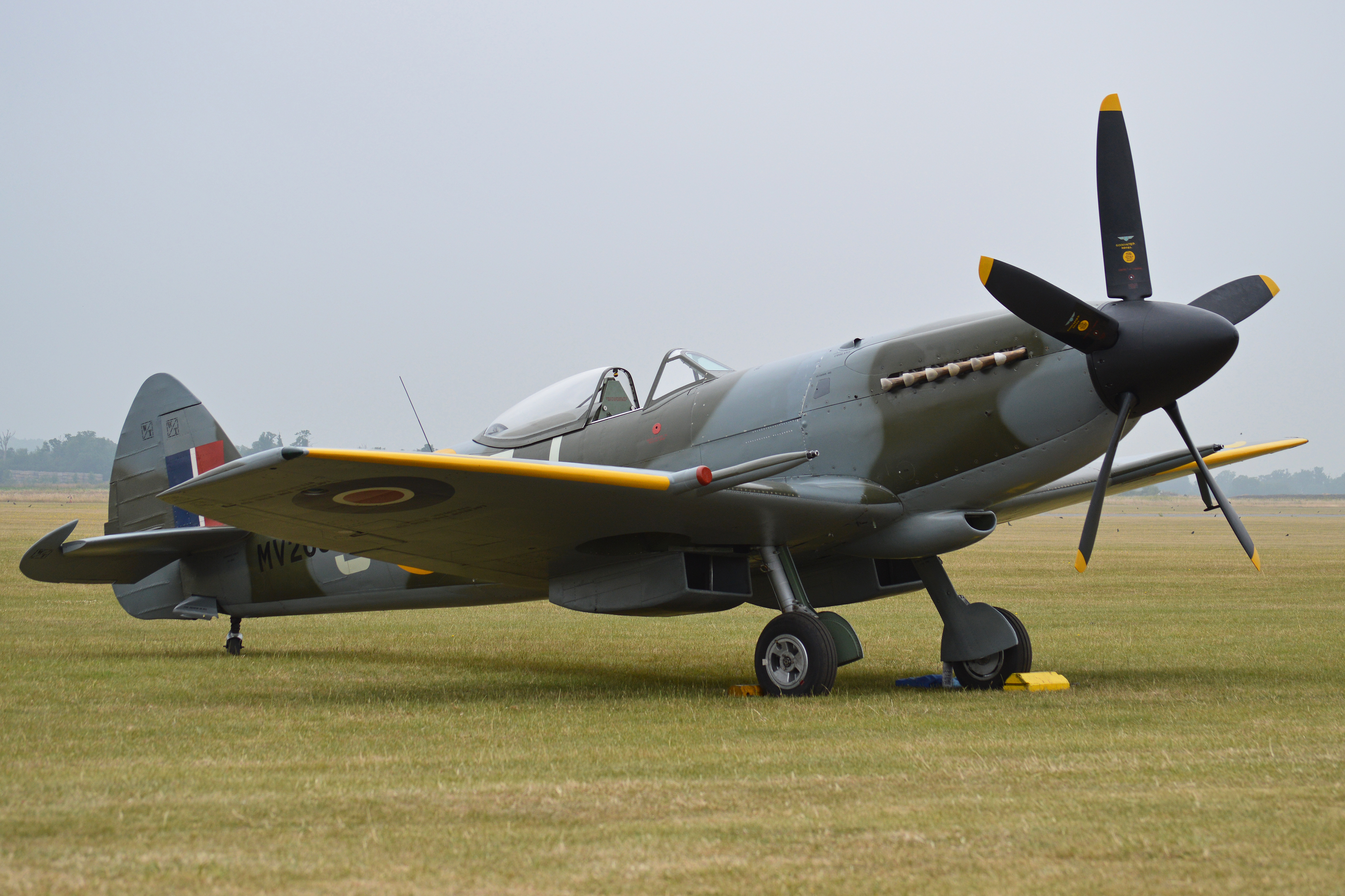 This Spit is operated by The Fighter Collection and based at Duxford. It is in false markings to represent Flt Lt James E. 'Johnnie' Johnson's Mk XIVe from 91sqn in 1945, while based at West Malling. Johnson was credited with 34 victories, making him the highest scoring Western Allied fighter ace against the German Luftwaffe. The aeroplane is actually MV293, an FR.XIV. c/n 6S.649205. 2013 Flying Legends airshow. Duxford, UK. 14-7-2013